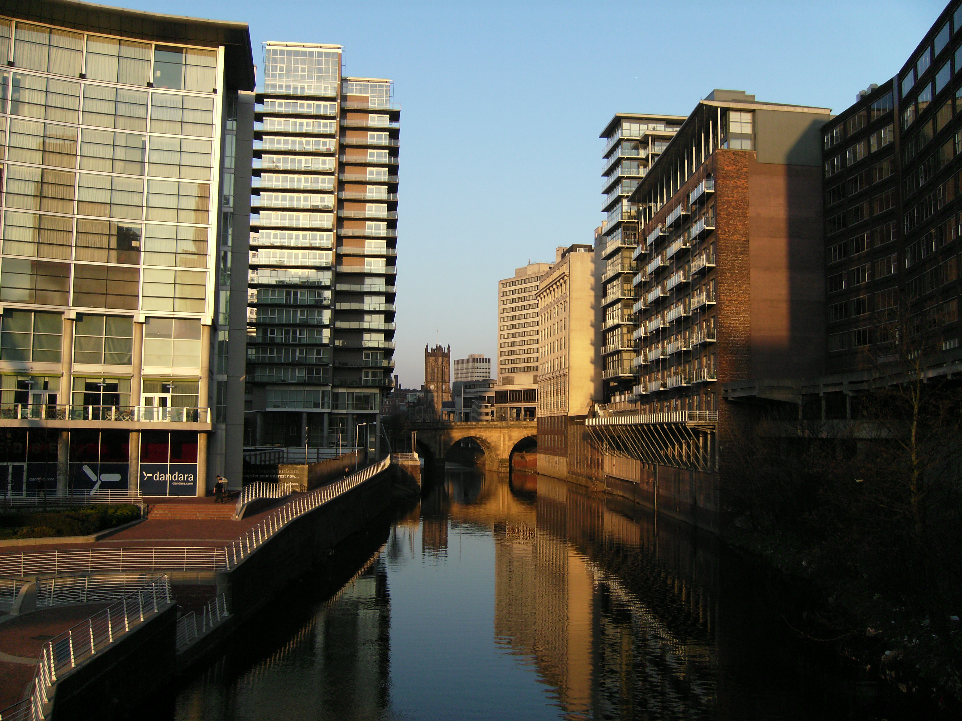 An image of the River Irwell in Manchester, England